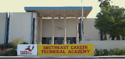 Our school